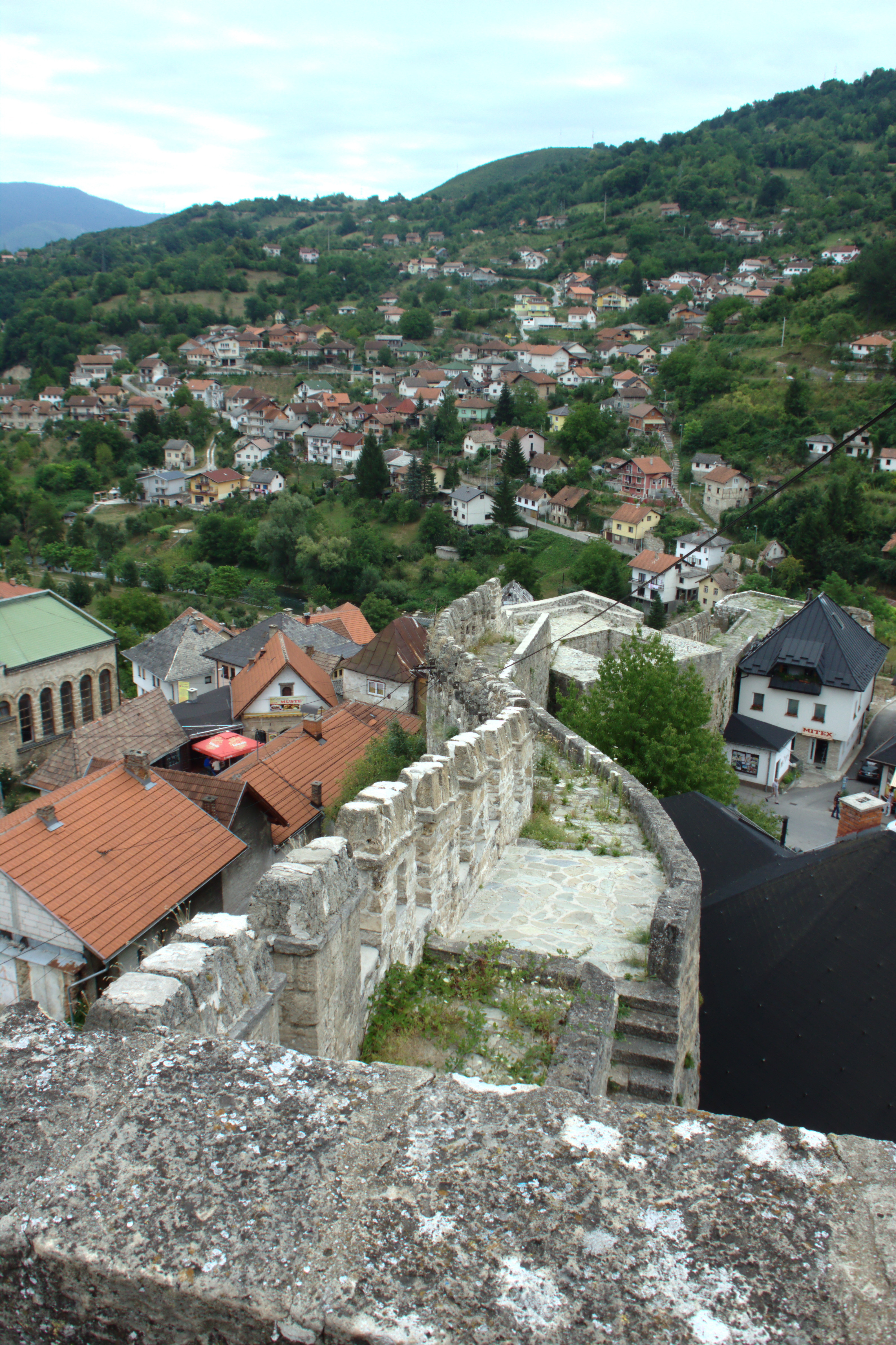 View of the town of Jajce from local castle, BiH